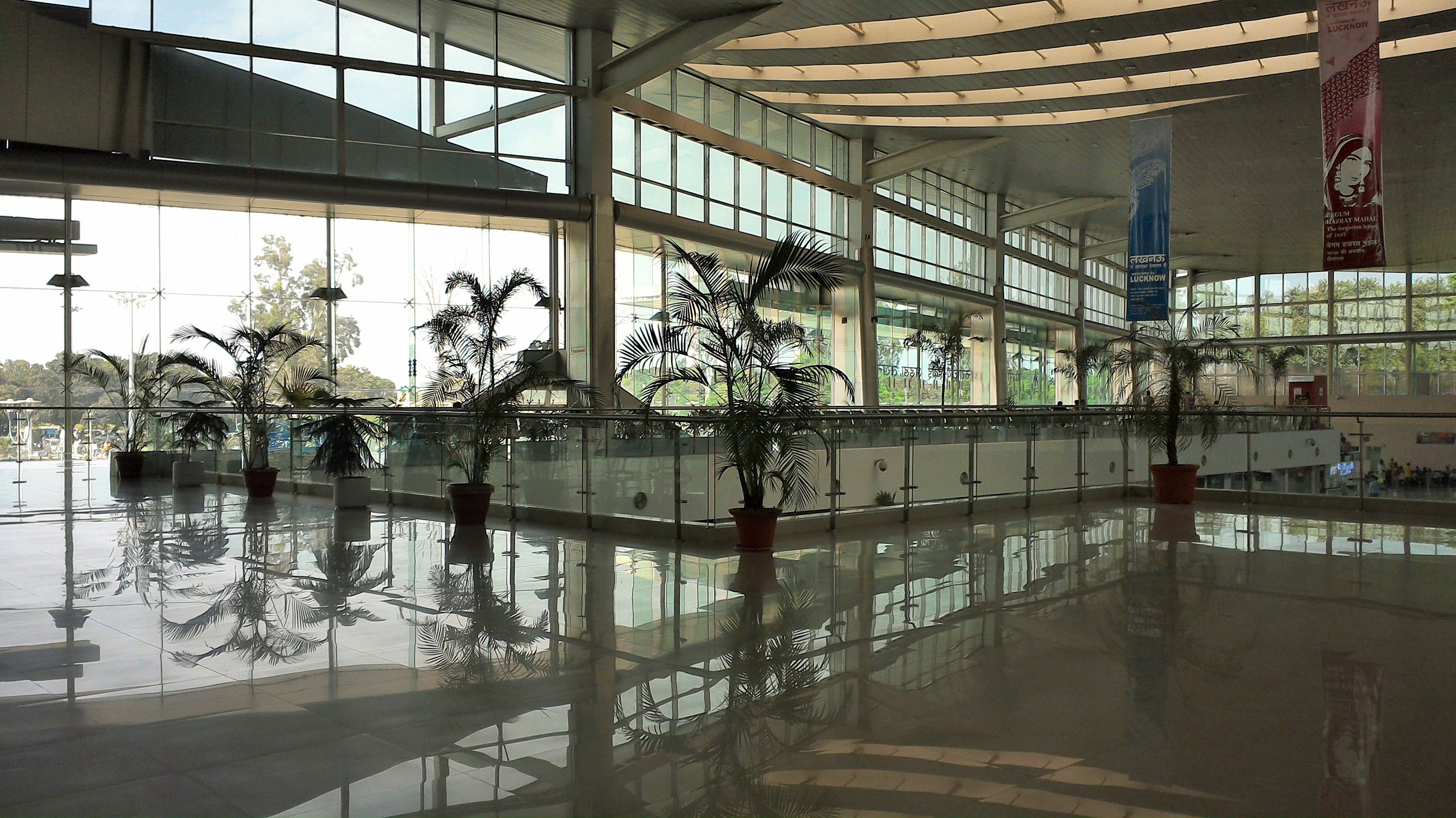 Visiting lobby of Lucknow airport